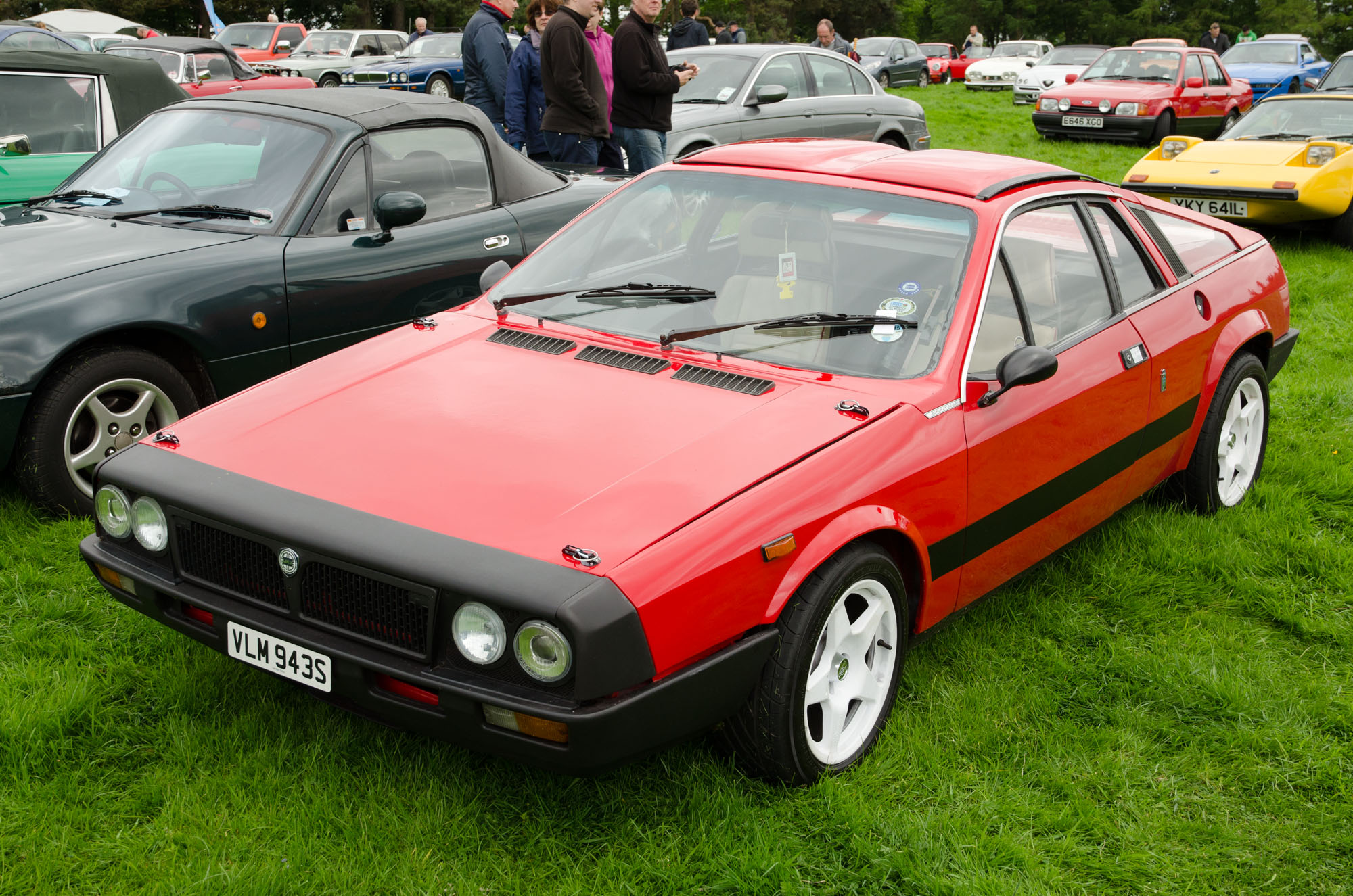 Capesthorne Hall Classic Car Show 25/05/2014